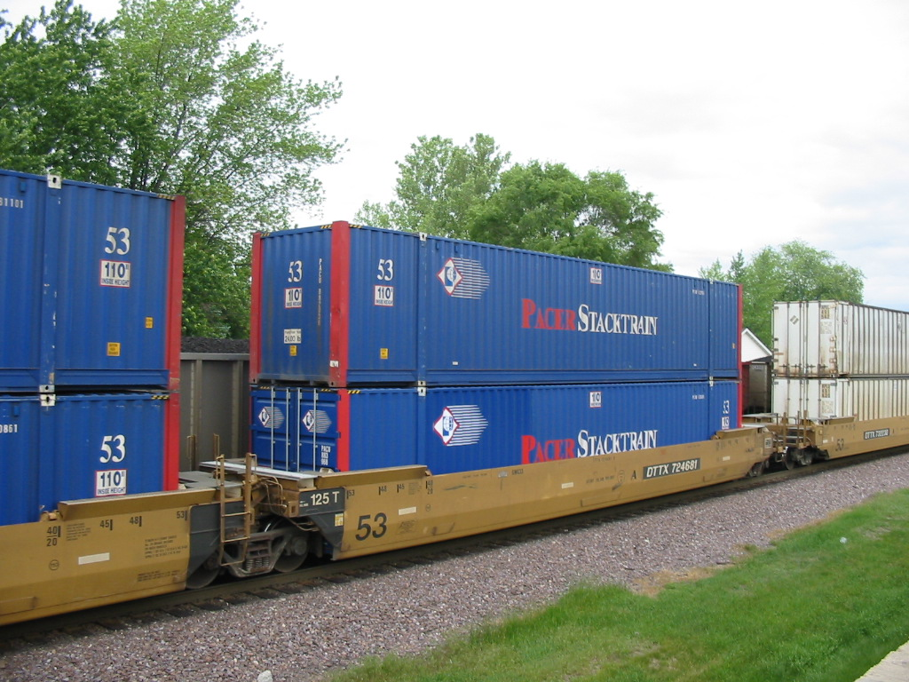 DTTX 724681, a portion of a Pacer Stacktrain (Concord, CA) 5-unit container car (a specialized type of gondola) seen passing through Rochelle Railroad Park, Rochelle, Illinois, on May 29, 2005. Photo by Sean Lamb (User:Slambo)